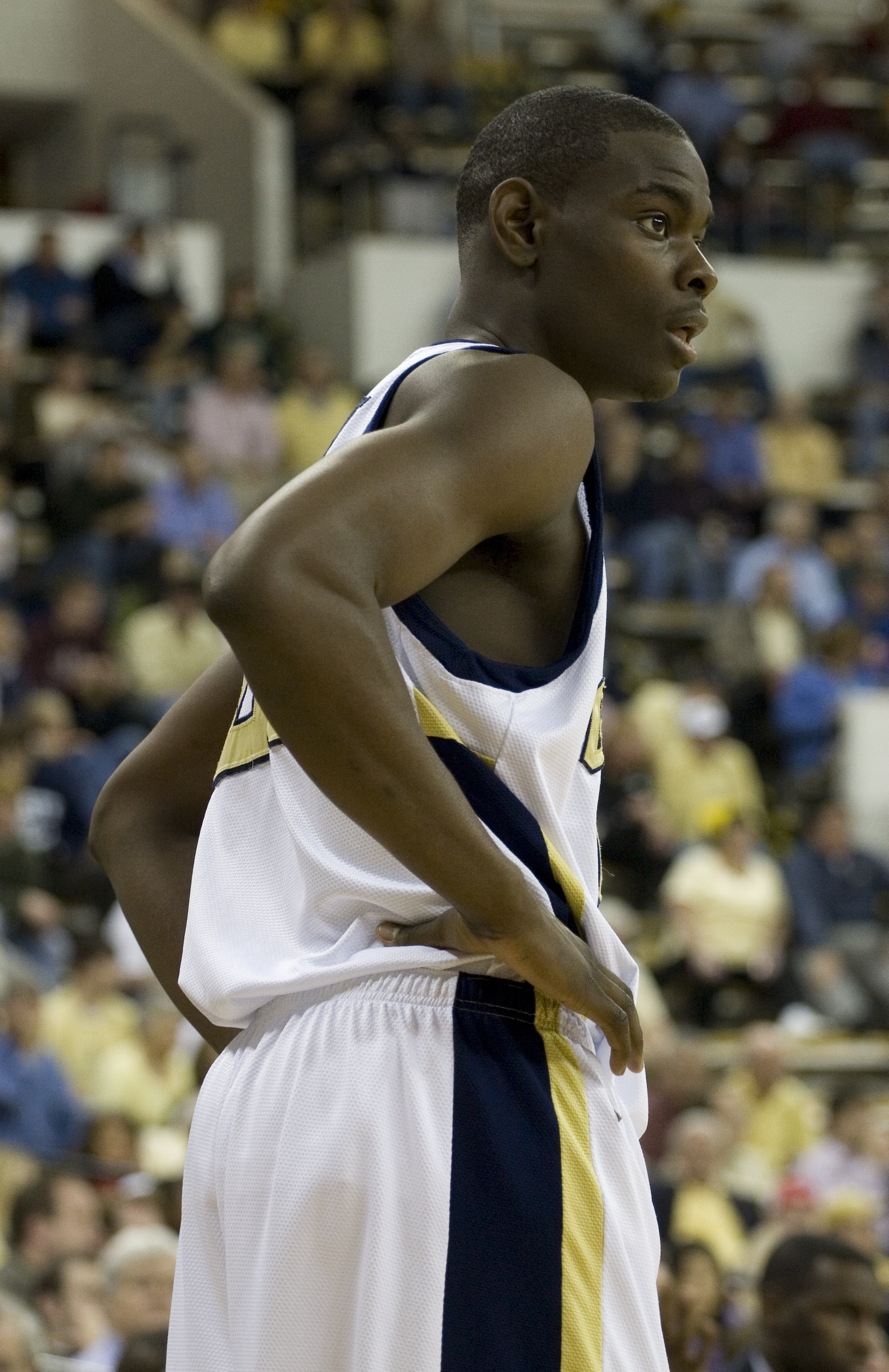 Anthony Morrow of the Golden State Warriors, former Georgia Tech Yellow Jacket.